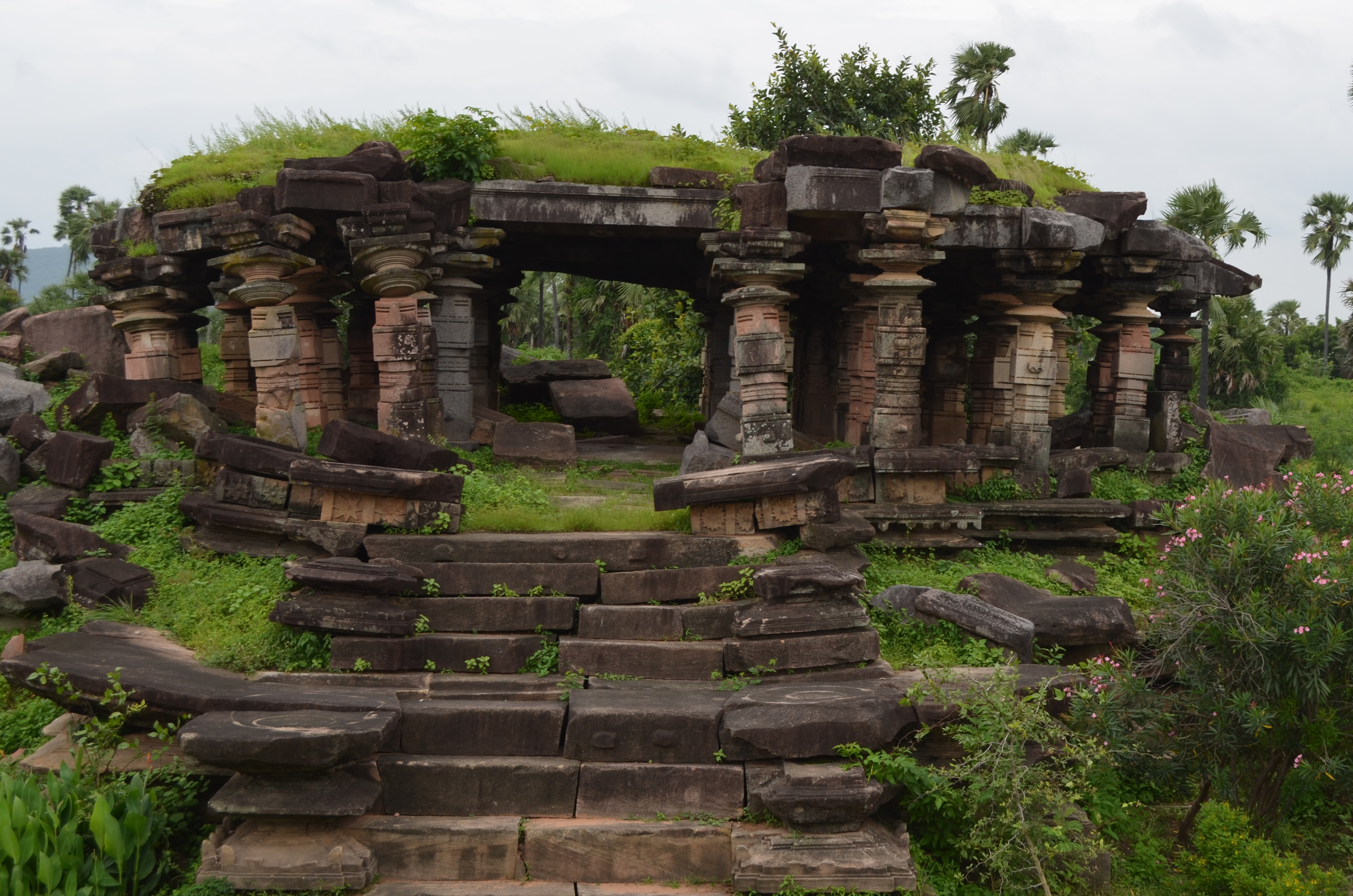 Shiva Temple near Warangal in ruins